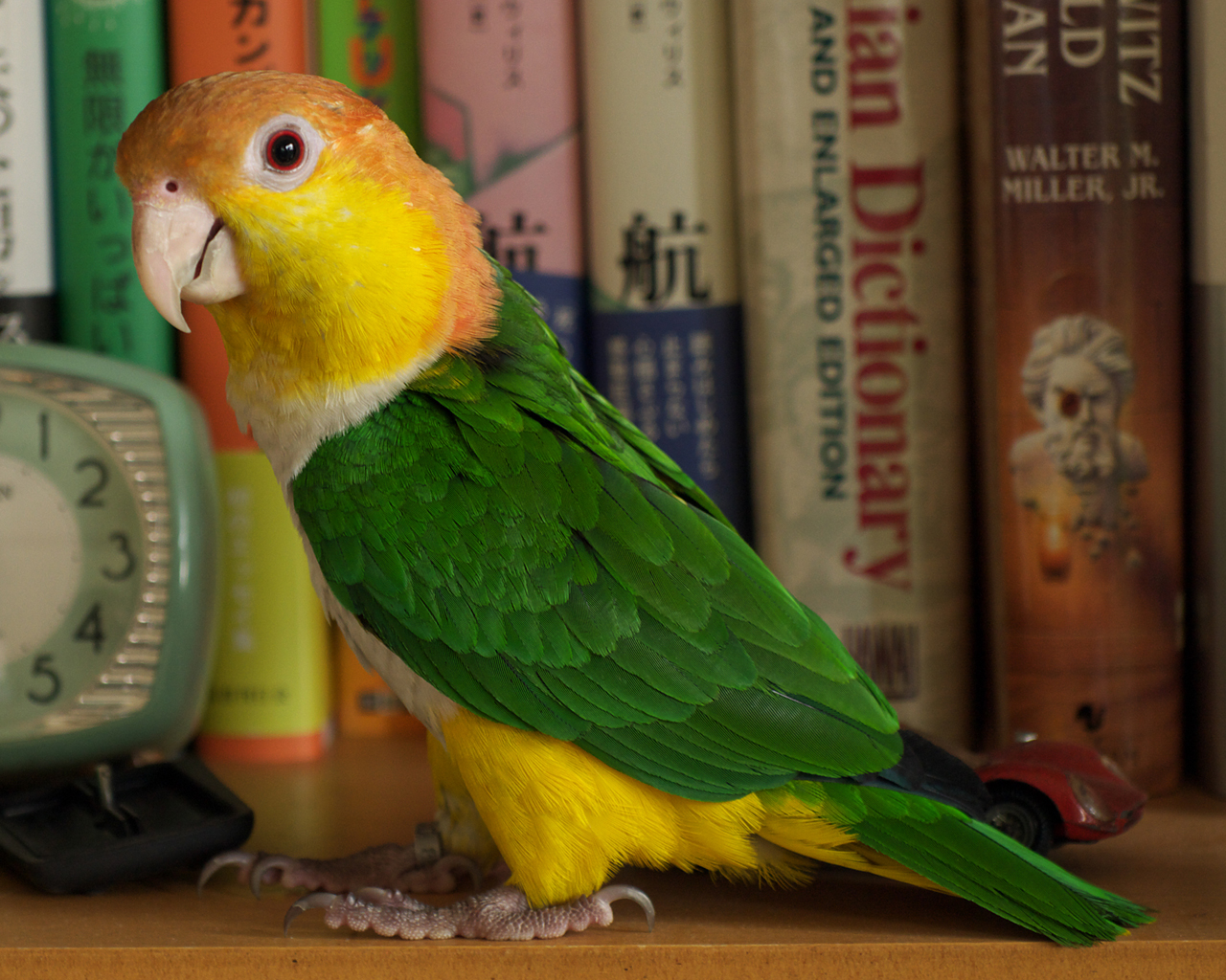 A pet adult male White-bellied Caique perching by a row of books.